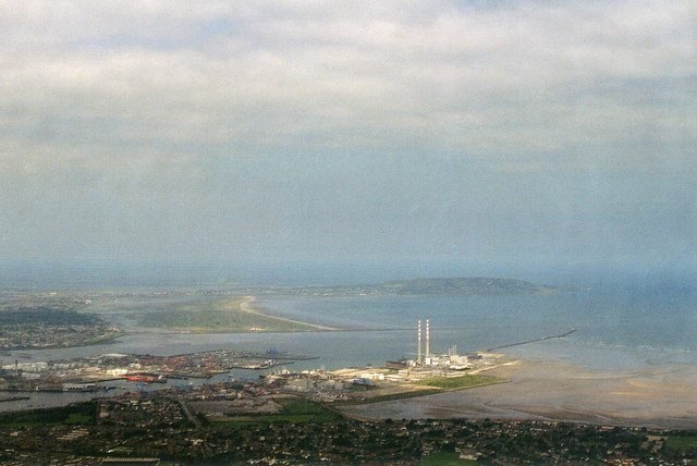 Aerial view of Poolbeg peninsula, 2003.